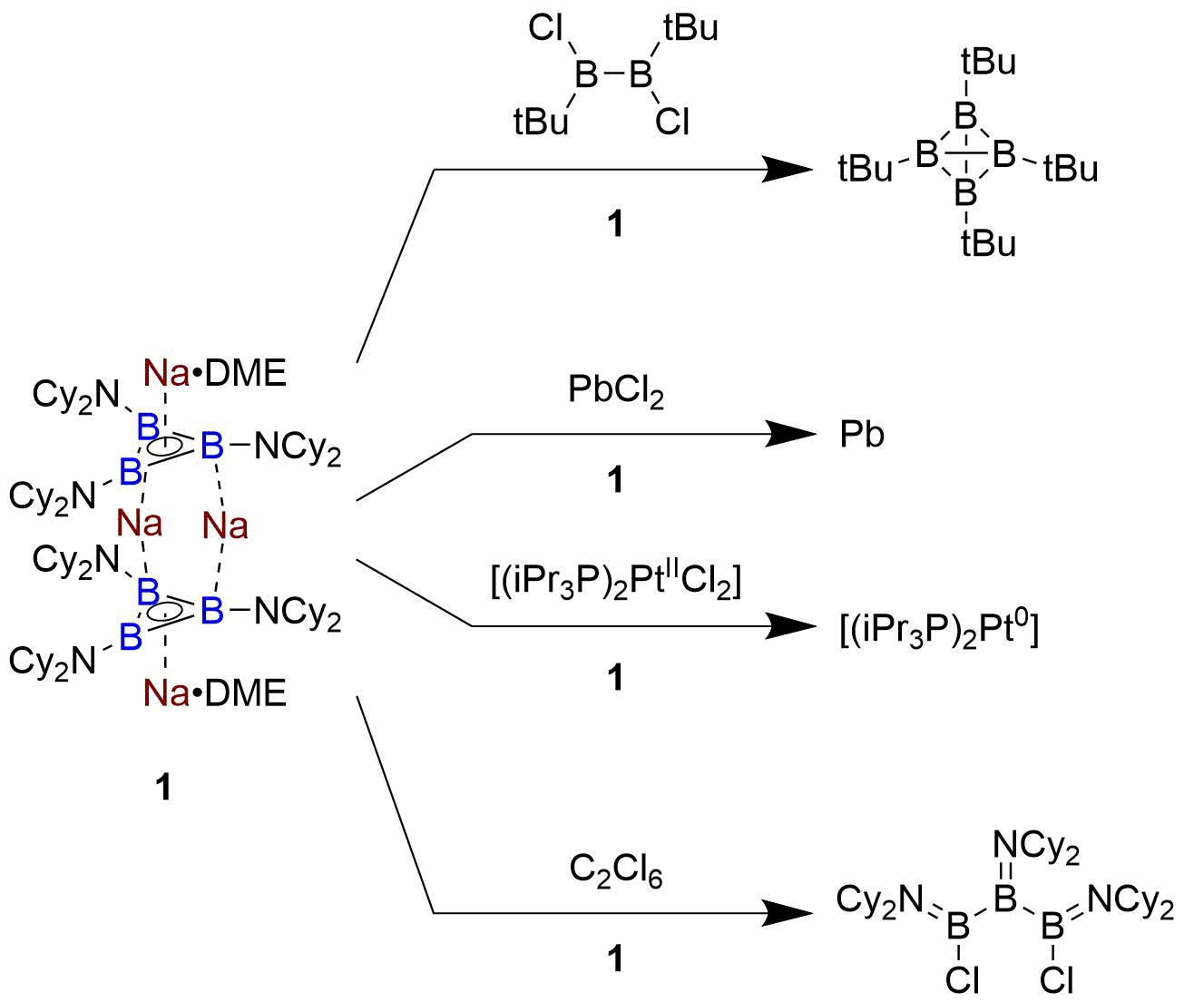 Na4[B3(NCy2)3]2 • 2 DME is a potent reductant with a strength comparable to alkali metals.